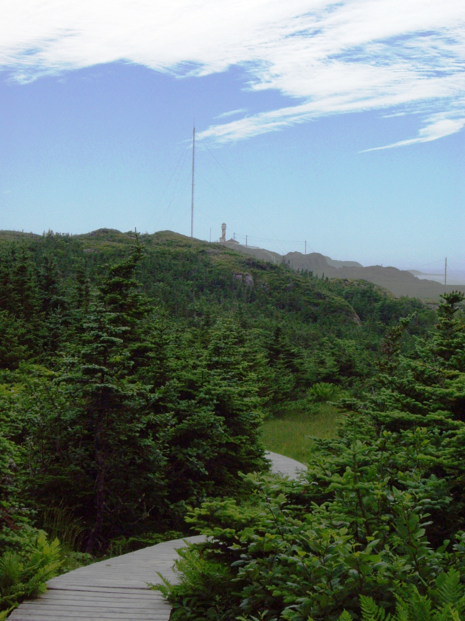 View of the Ramea Trail from Near Muddy Hole towards the Norwest Lighthouse